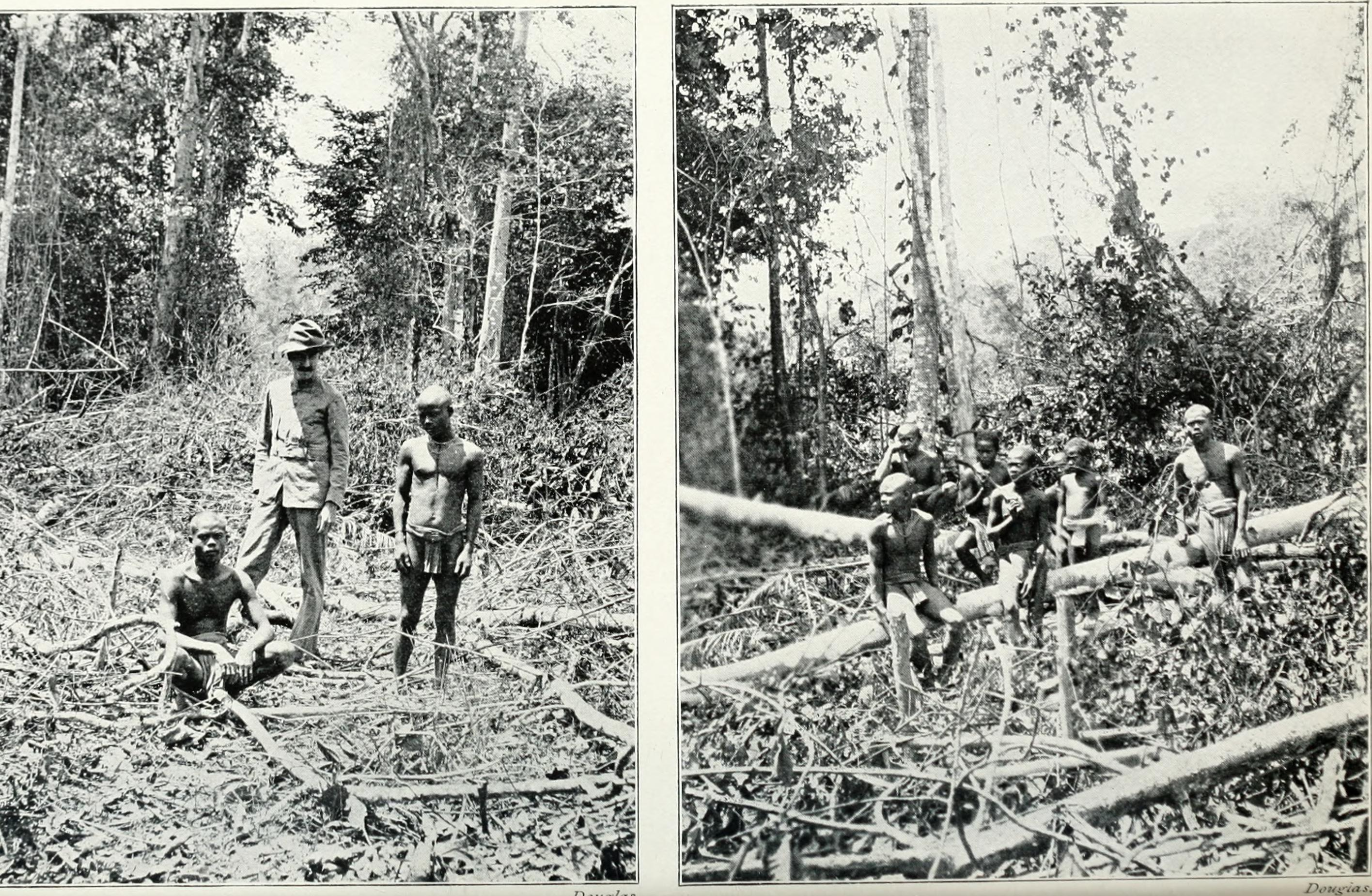 Title: Pagan races of the Malay Peninsula Year: 1906 (1900s) Authors: Skeat, Walter William, 1866- Blagden, Charles Otto, 1864-1949 Subjects: Ethnology -- Malay Peninsula Malays (Asian people) Malay Peninsula -- Social life and customs Malay Peninsula -- Religion Malay Peninsula -- Aboriginal dialects Publisher: London : Macmillan and Co., limited (etc., etc.) Text Appearing Before Image: Semang of Grit (or Janing). 781 Text Appearing After Image: r^l^^mj^